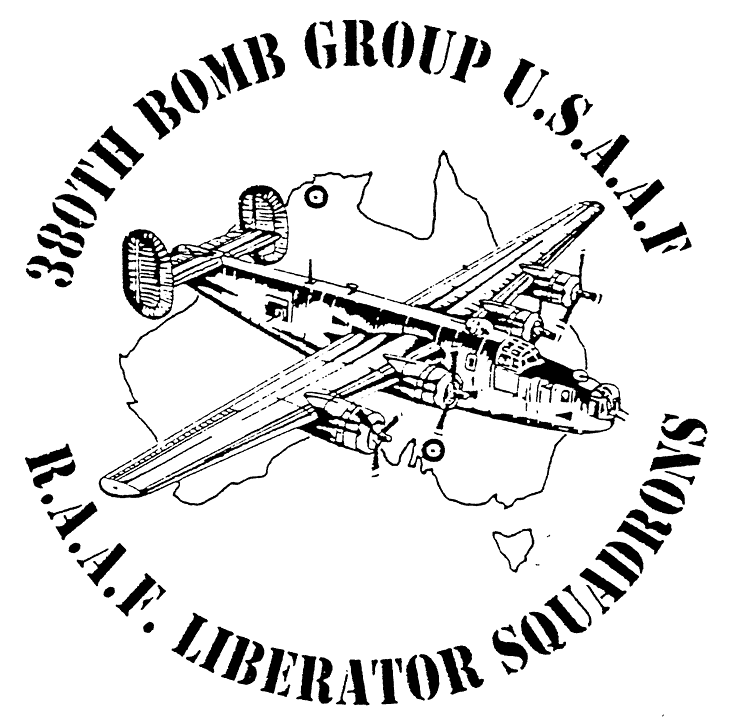 USAAF-380th and RAAF emblem